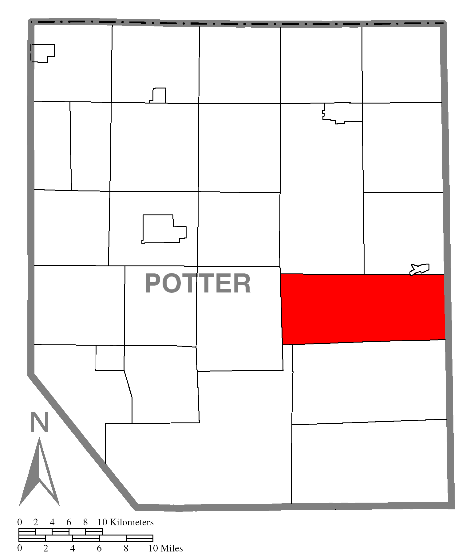 A map of Potter County showing West Branch Township, Pennsylvania (alternate) highlighted on the map.